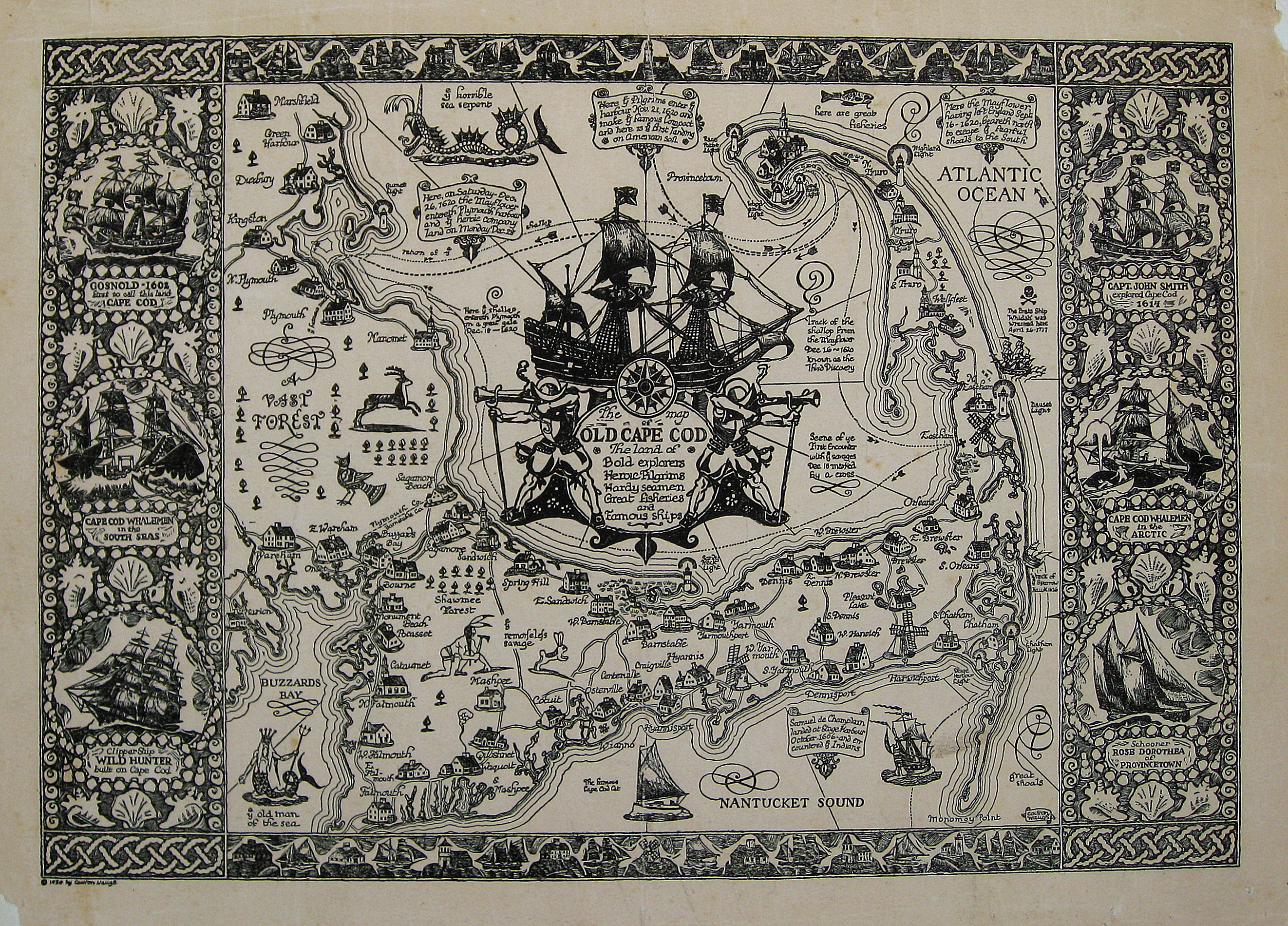 A delightful, decorated and illustrated tourist map of Old Cape Cod, by Coulton Waugh, 1930. Image owned by Maps of Antiquity, Chatham MA